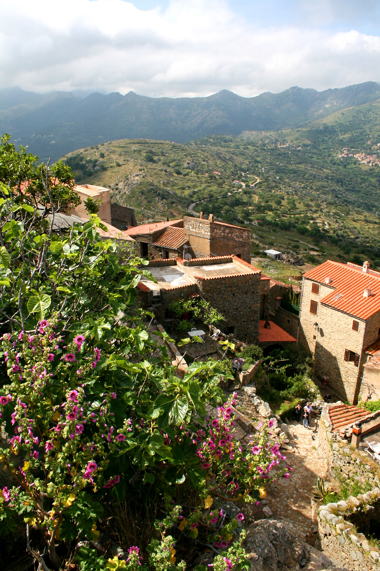 Sant'Antonino (Haute-Corse) France, and the villages of the (Balagne). Walon: Sant'Antonino (Ôte-Corse) - France, èt lès viyadjes di Balagne.